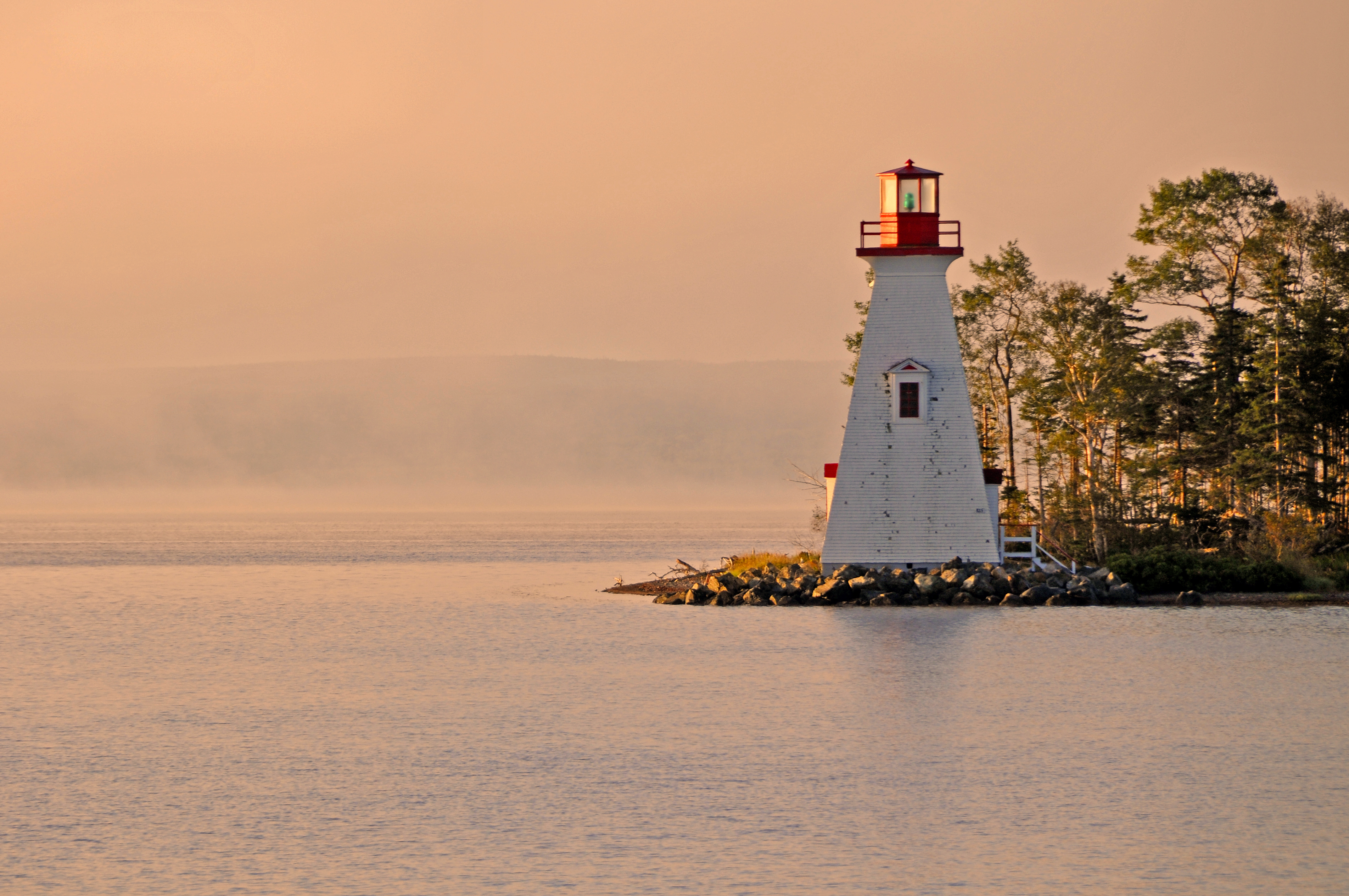 Kidston Island Lighthouse. This light is situated on Kidston Island in Baddeck. It is a white square tower that is 15.24 meters (50ft) high, with the light height 14.6 meters (48ft) above the water level. The first lighthouse was established here in 1872. Began and Lit: 1875 Scenic Drive: Bras d'Or Lakes